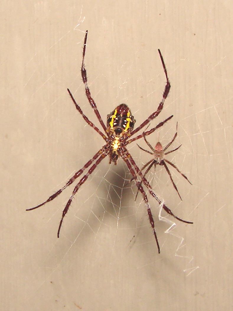 Taken on my back porch, 9/1/2006.